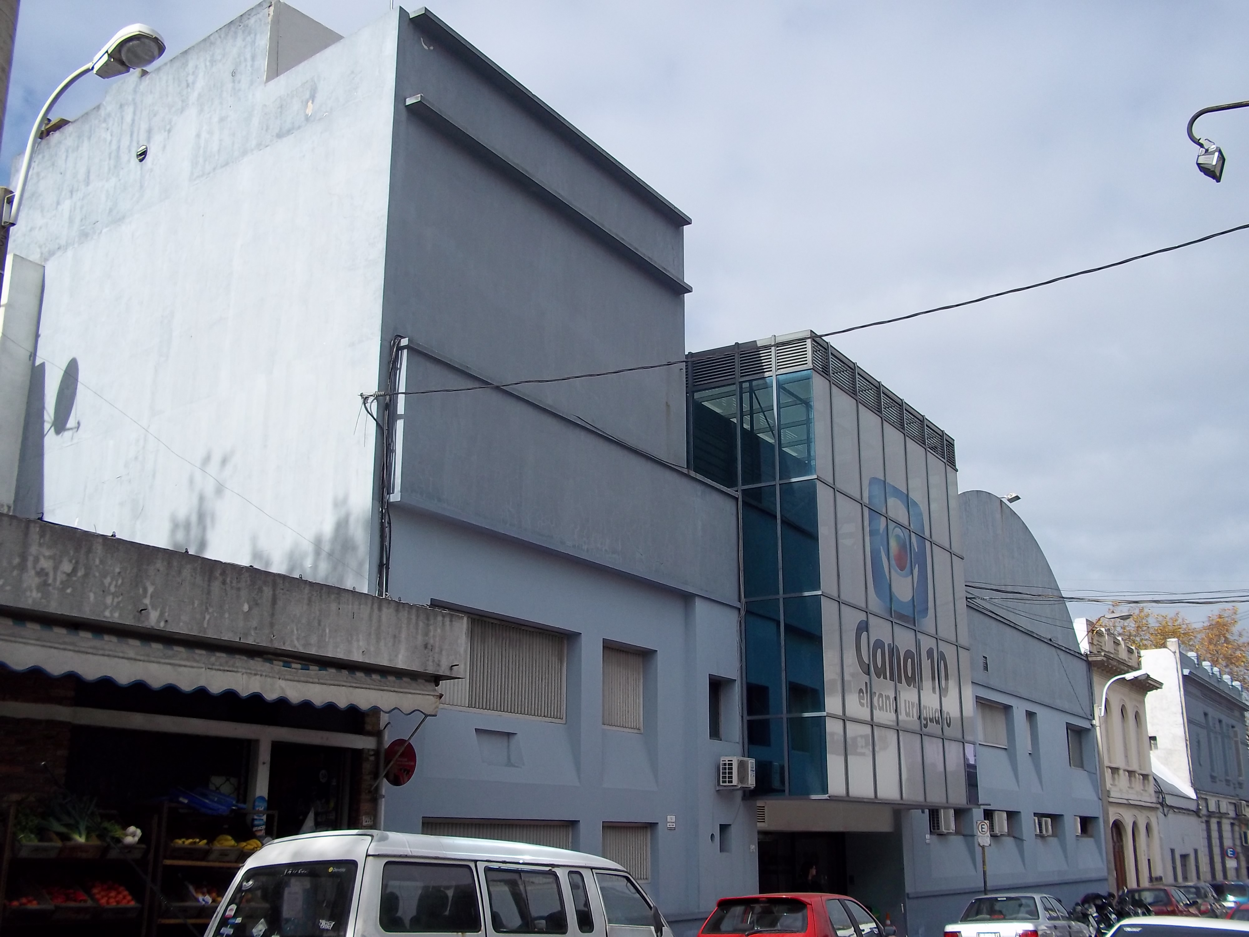 Saeta TV (Canal 10) - Main entrance (Lorenzo Carnelli St), Montevideo, Uruguay